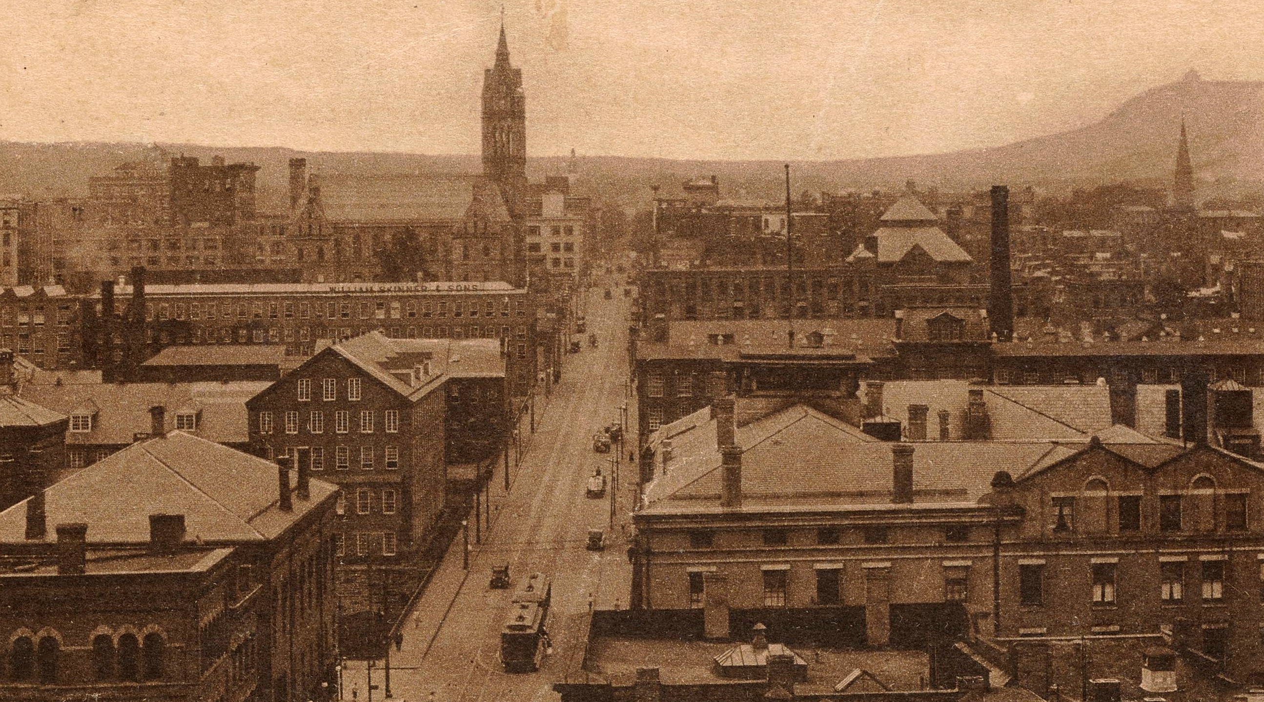 View of Downtown Holyoke, including City Hall and the Opera House, as well as Mount Tom in the distance.